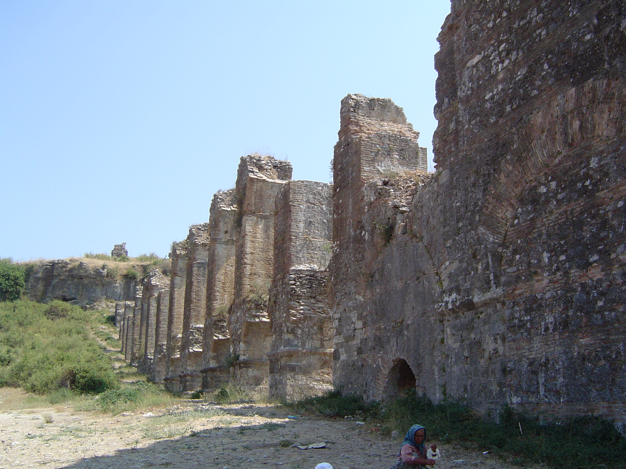 Aspendos Roman Aquaduct, Turkey Made in 2004